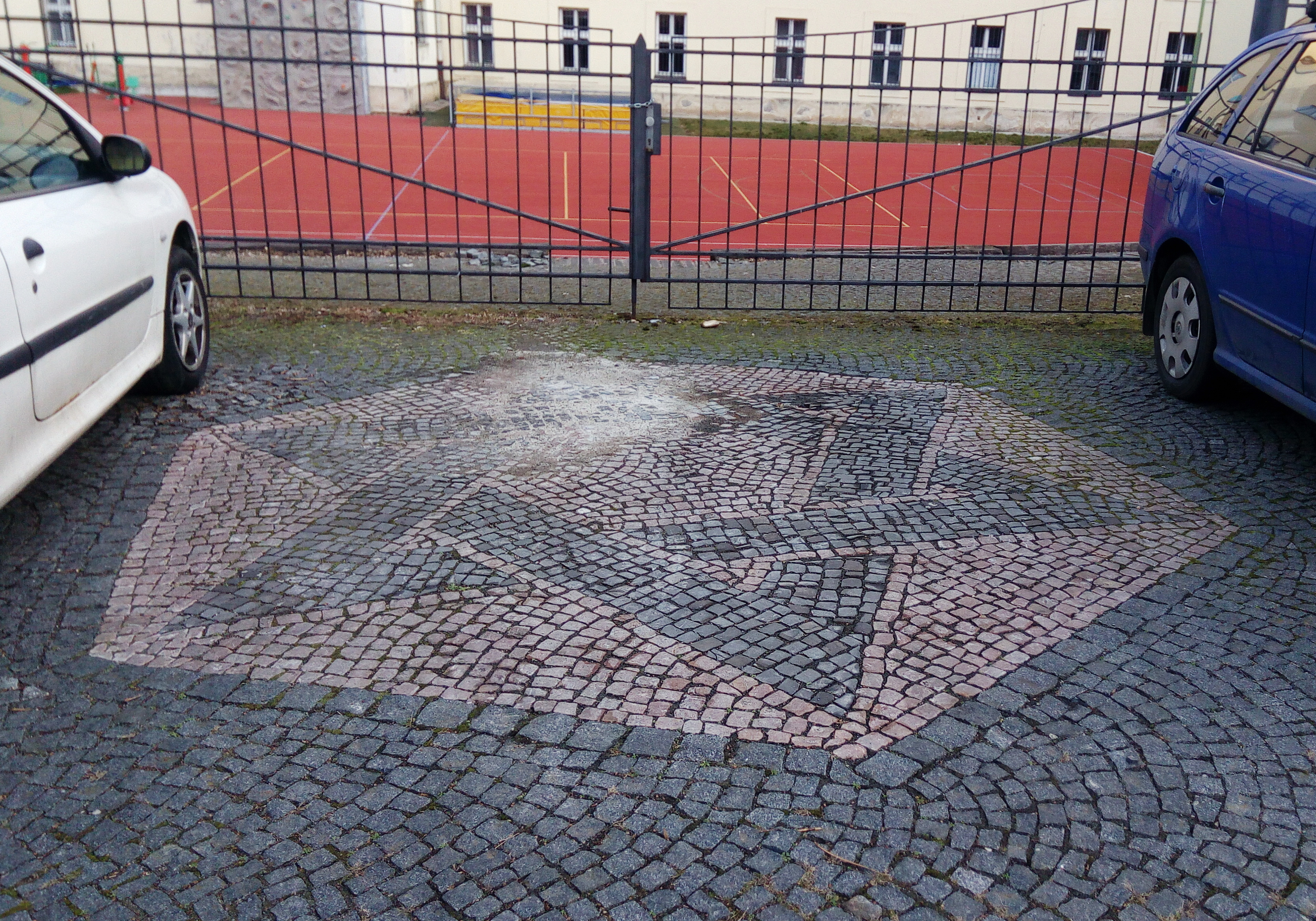 Memorial of the synagogue in Mladá Boleslav, Czechia, pulled down in 1962.